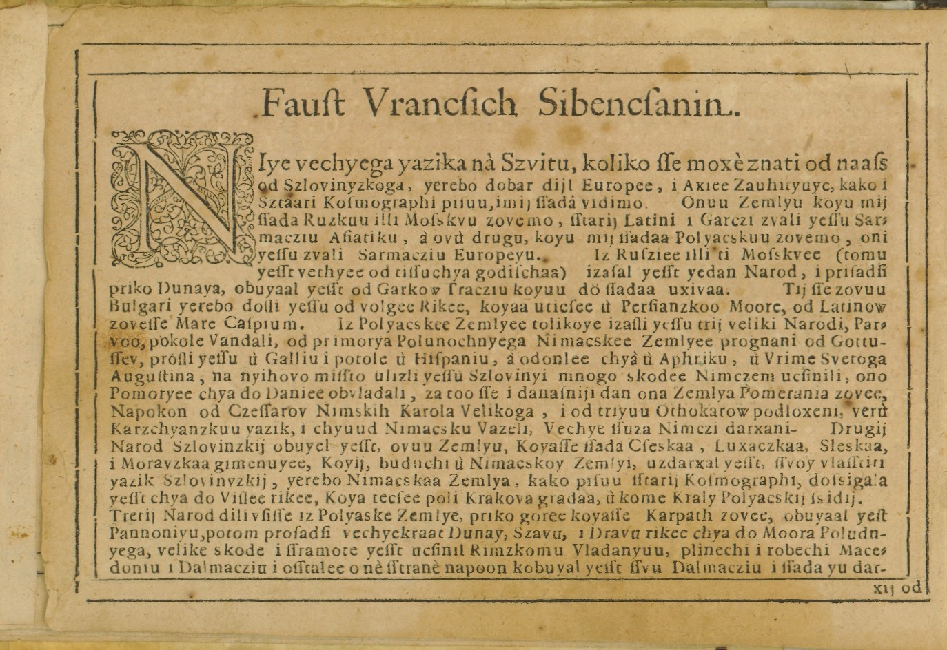 Preface for the 2nd efition of 5-lingual dictionary by Faust Vrančić